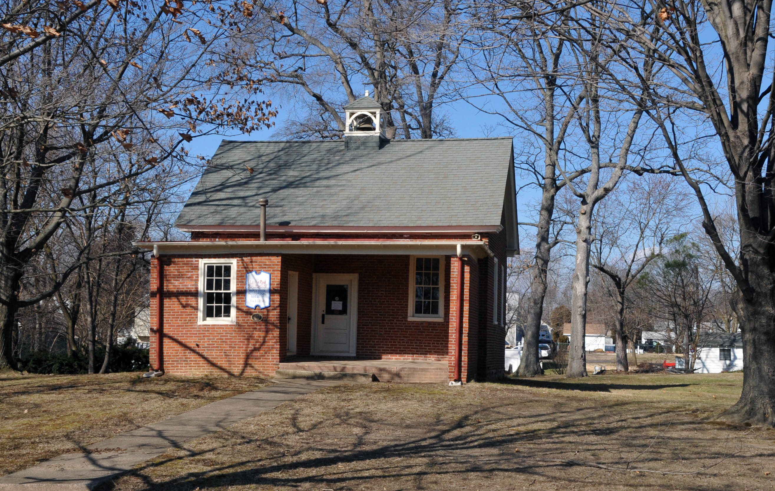 Also known as the Little Red Schoolhous; Maple Shade, Burlington County, NJ; built in 1811.